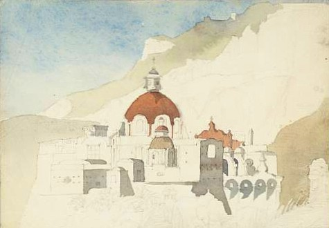 Sketch of a Church under a Cliff